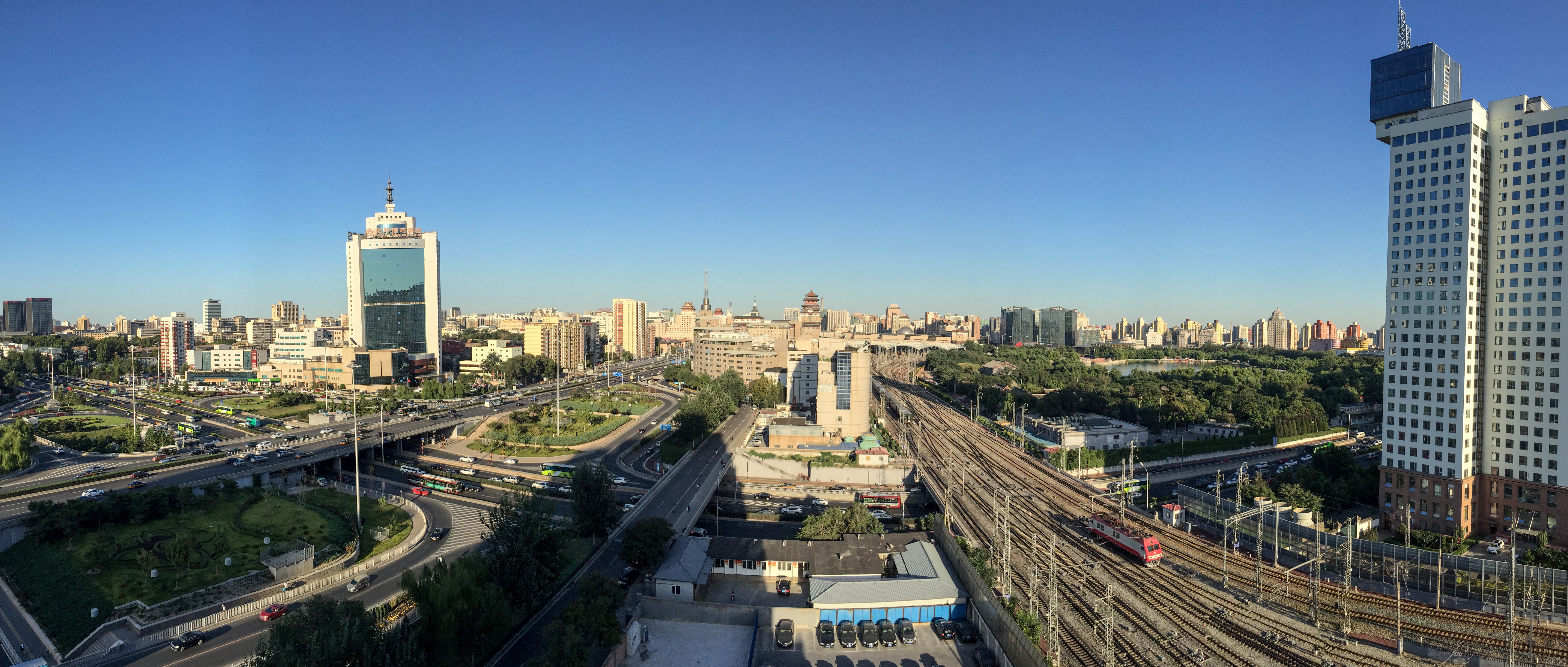 An overall view from Huabao Mansion.